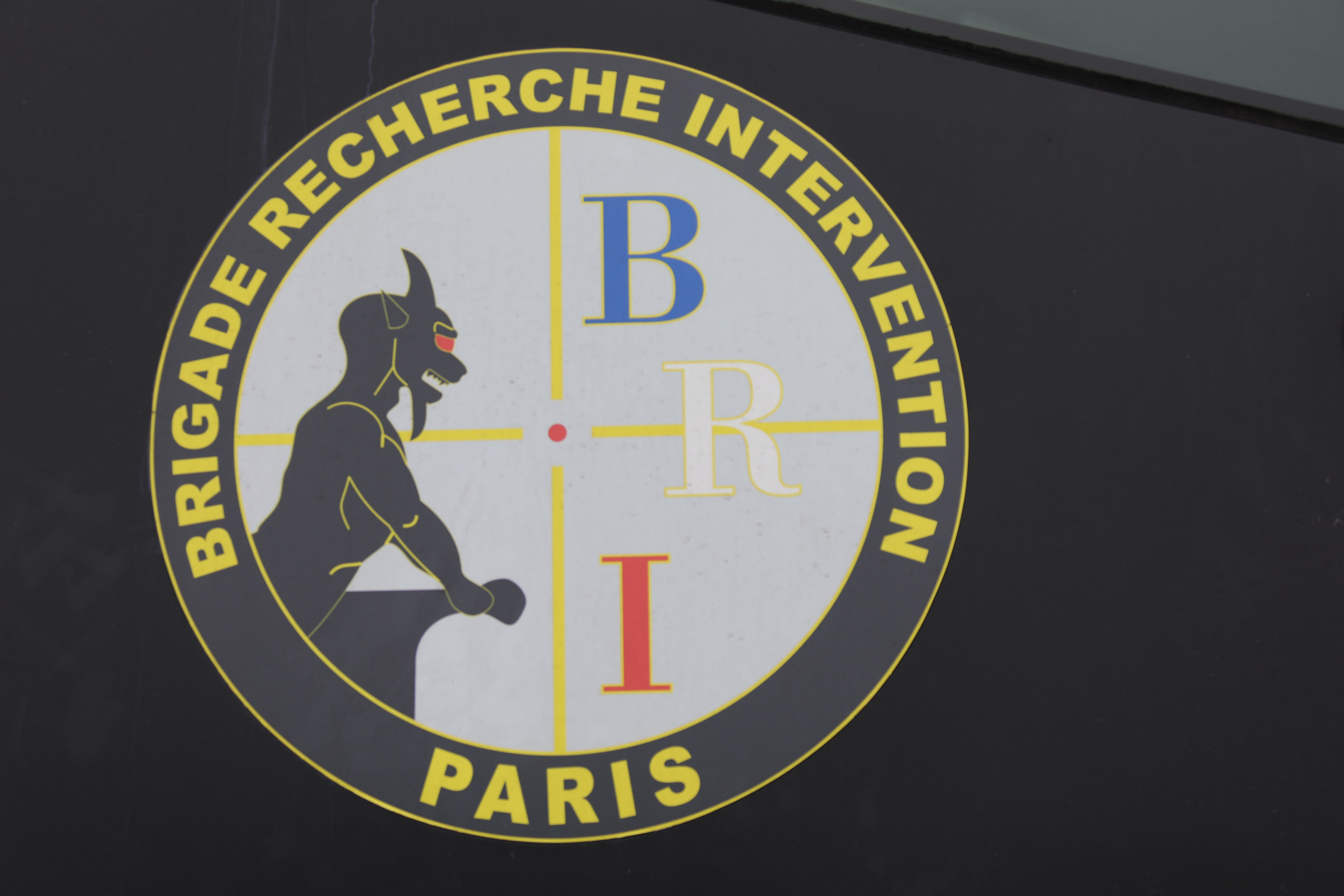 BRI-PP logo on a Paris Police armoured truck